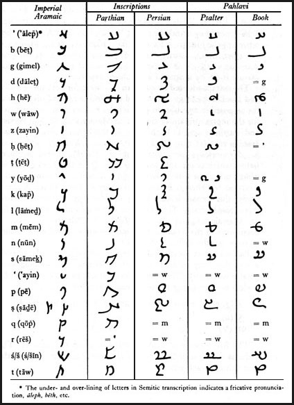 imperial Aramaic. Аҧсшәа: آرامی امپراطوری آرامی امپراتوری